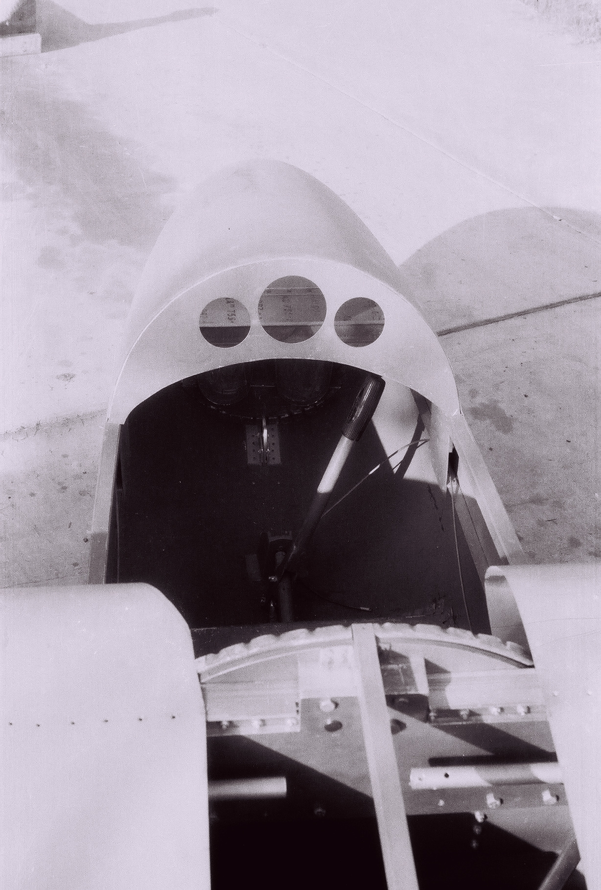 GT-1 sailplane cockpit under construction